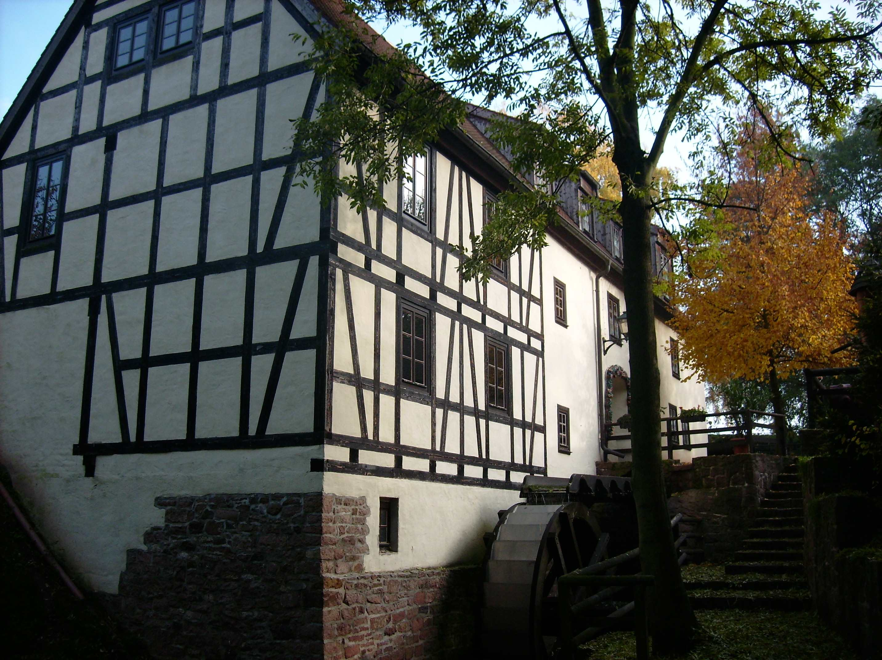 Krosigk water-mill (Petersberg, district of Saalekreis, Saxony-Anhalt)